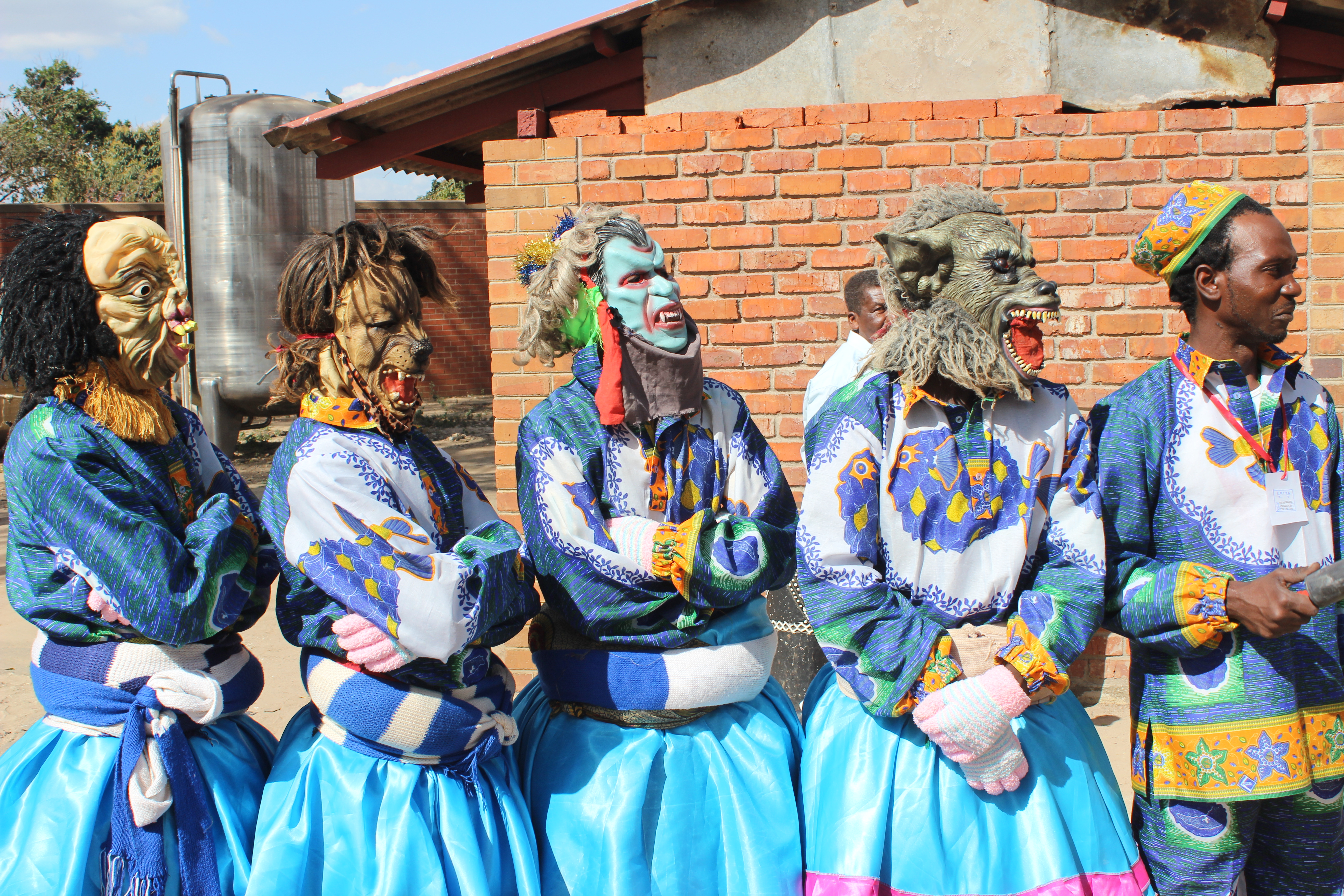 This is an image with the theme "Play" from: Zimbabwe